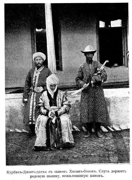 Photo Kurmandjan Datka son Asanbek (left) and servant (right) and holding a sword tribal granted by Kokand Khan.